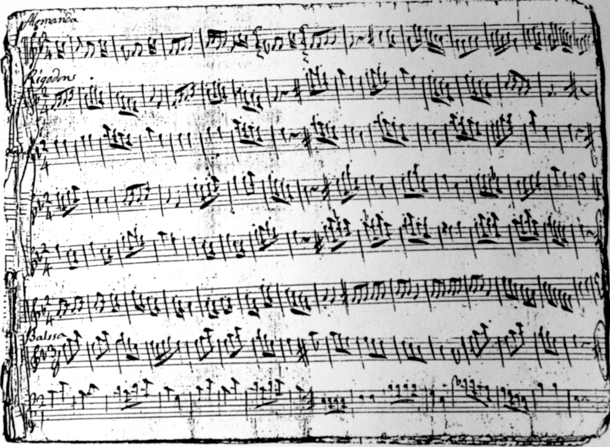 Rigodon i alemanda en un manuscrit català (quadern de llibertats d'orgue) de ca. 1820